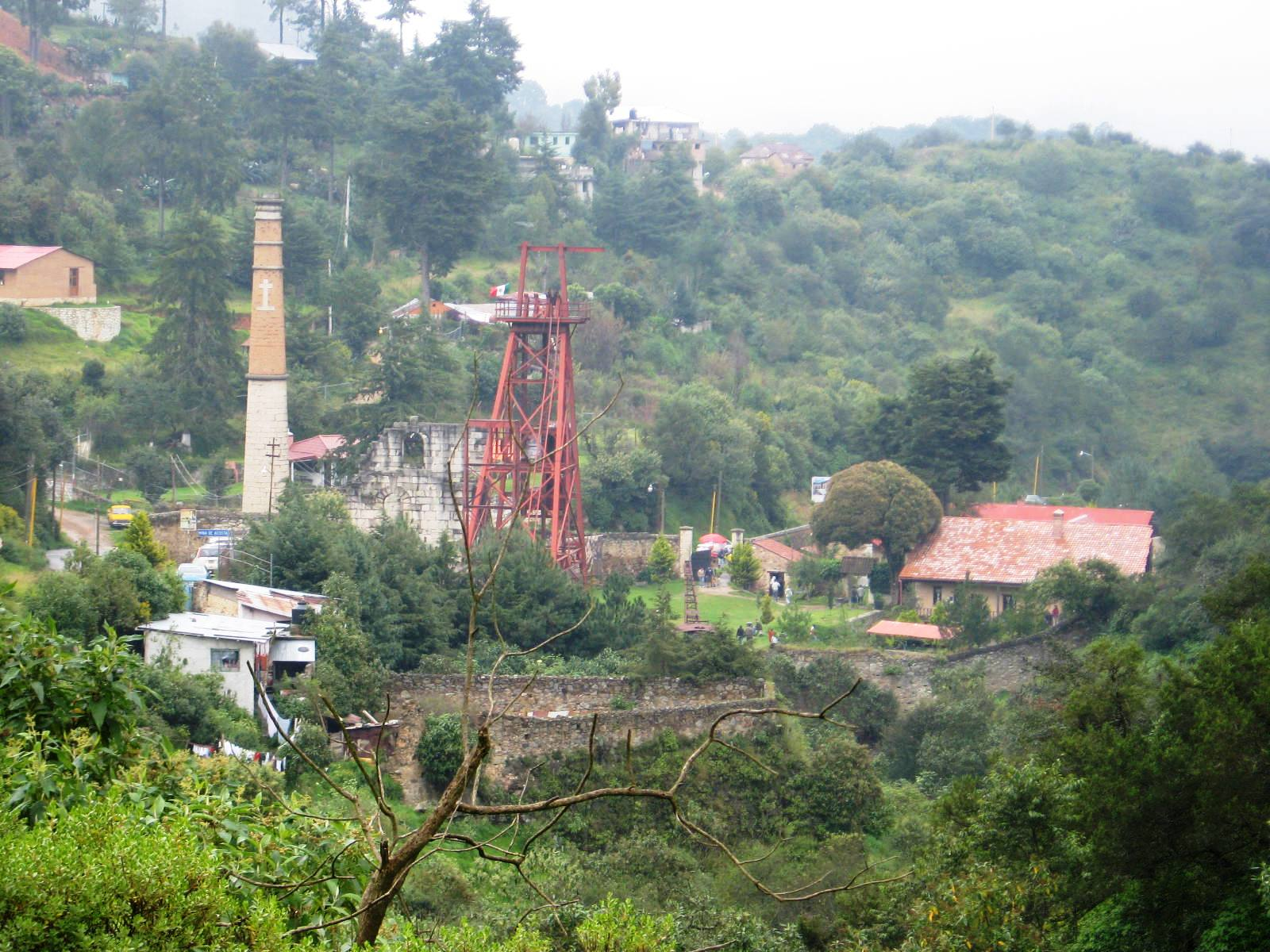 Overview of the Acosta Mine Museum located in Real del Monte Hidalgo State Mexico